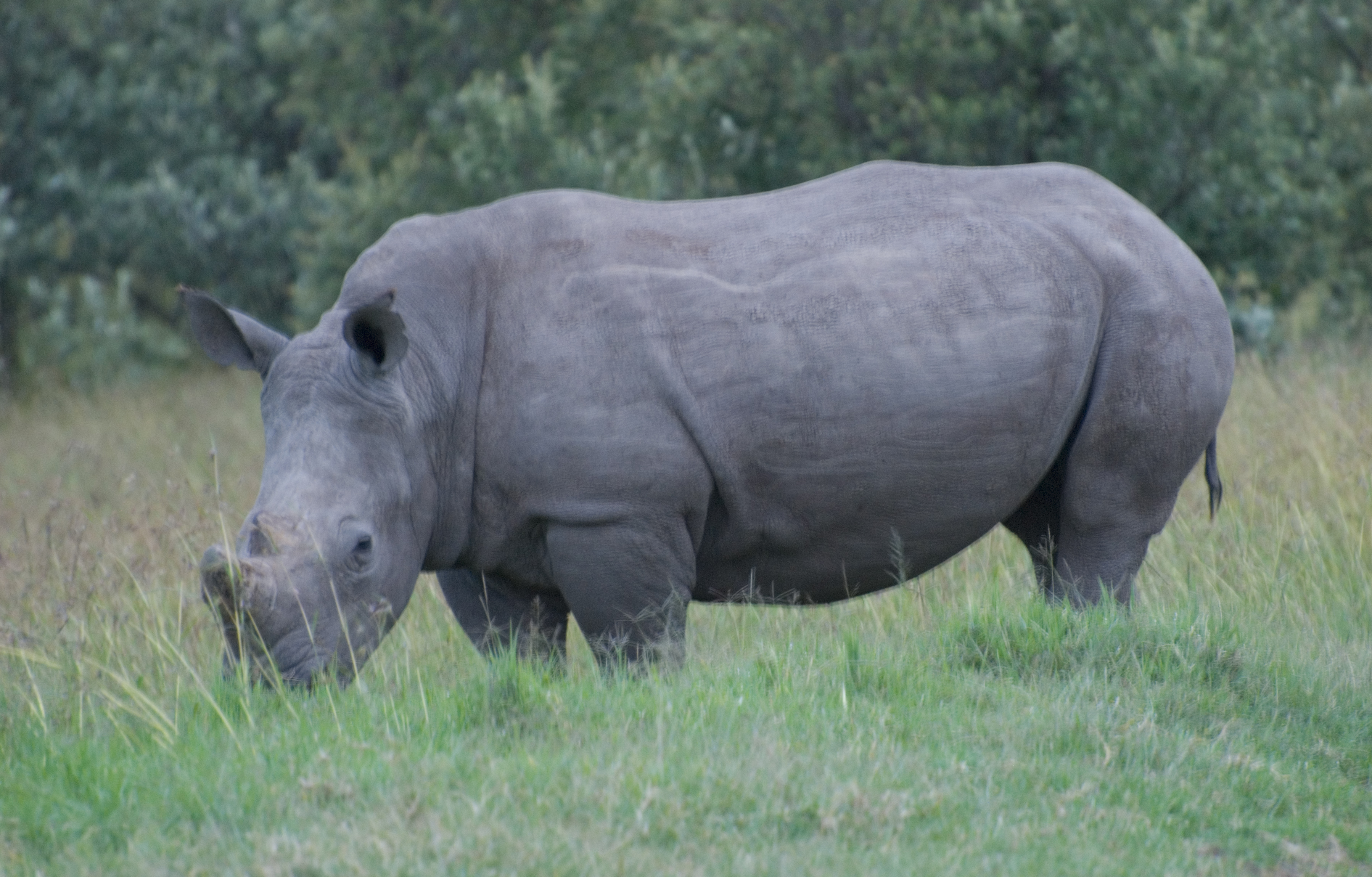 This image is a little blurry. I took it hand-held and on foot, and the light was fading fast. I wasn't expecting to encounter a rhino on that walk!